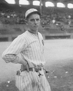 Baseball player, White Sox, Claude "Lefty" Williams standing on field at Comiskey（1916 Sept. 26）